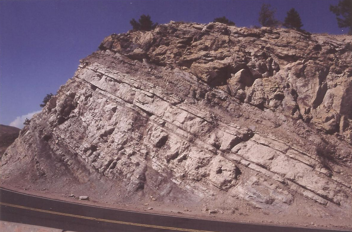 Outcrop of Lower Dakota "Group" (local usage), that is, Lytle Formation, Plainview Sandstone member and lower South Platte Formation, at crest of Dinosaur Ridge near Golden, Colorado. Taken 10 August 2003, facing north. "